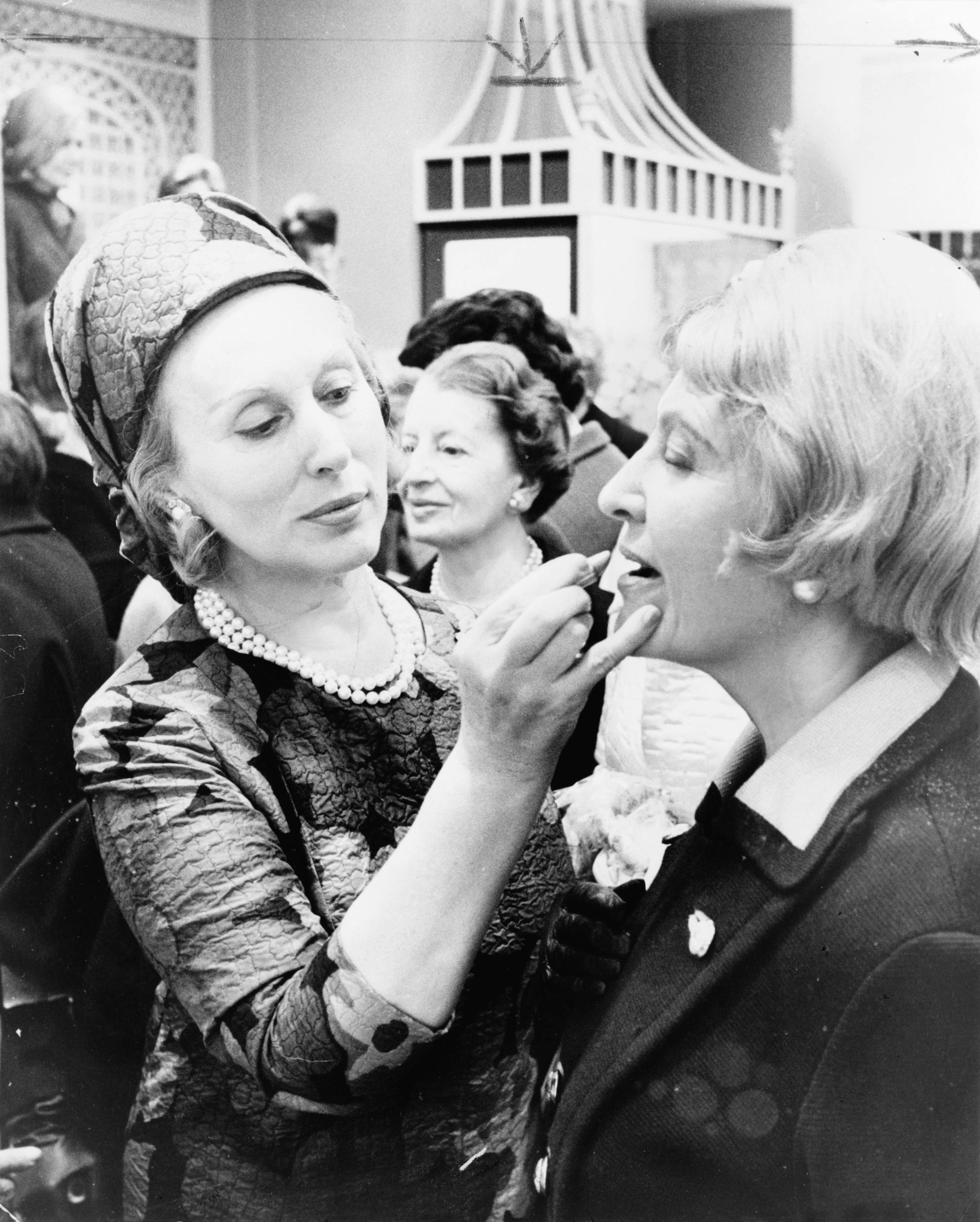 Estee Lauder, in a vivid print from Yves Saint Laurent, puts today's face on customer by using darker shade of lipstick / World Journal Tribune photo by Bill Sauro.